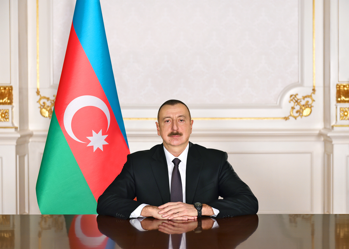 Congratulatory address of Ilham Aliyev to the people of Azerbaijan on the occasion of the Day of Solidarity of World Azerbaijanis and New Year